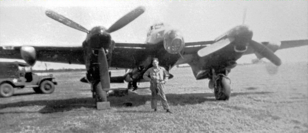 de Havilland DH98 Mosquito of the "Carpetbaggers" 492nd-801st BG. Probably taken at their base AAF 179 Harrington, England. Equipped with special Joan - Eleanor radio receivers and used to collect transmissions from OSS agents in enemy territory on missions nicknamed "Red Stocking".